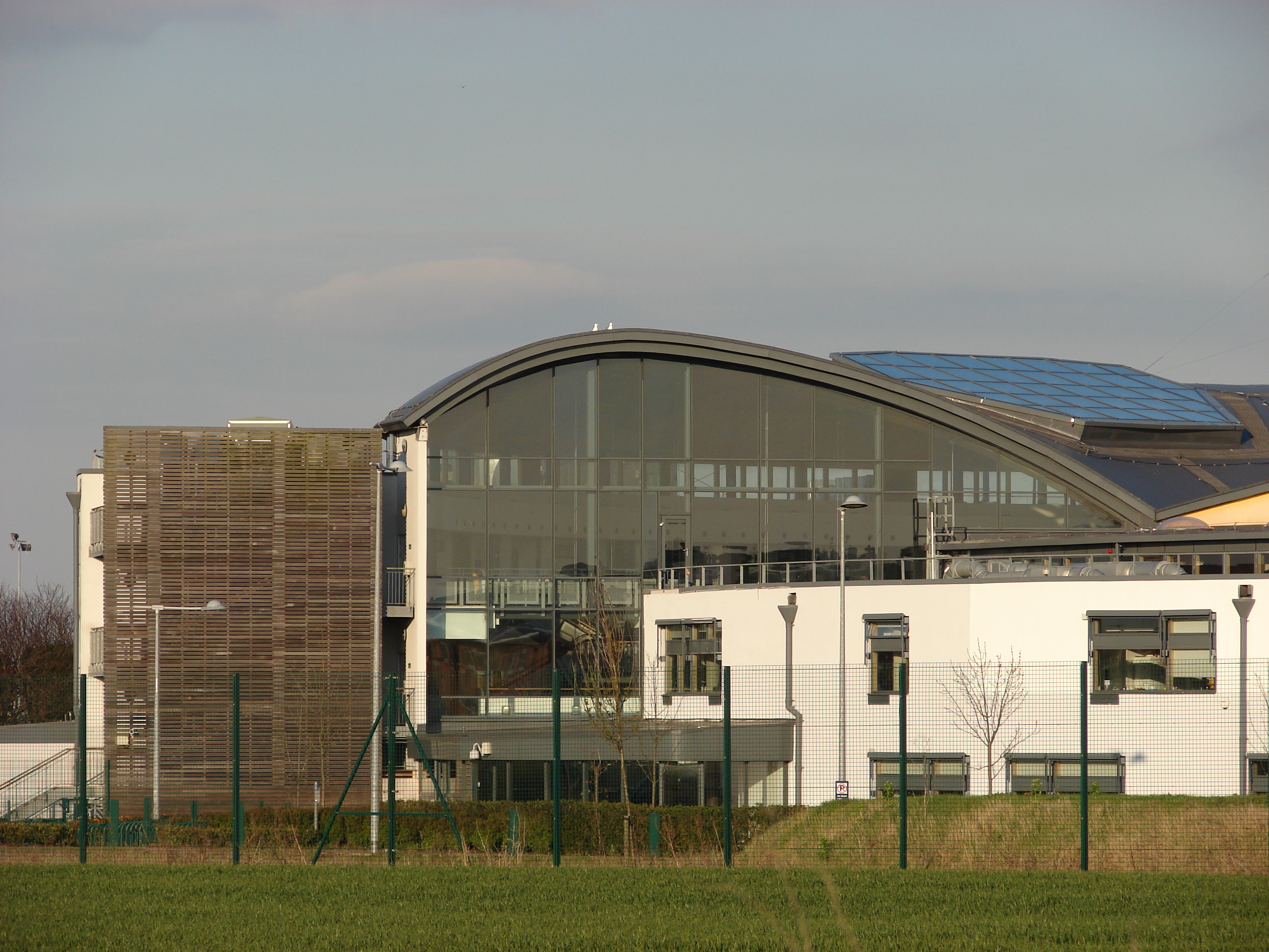 Marlowe Academy, on the Isle of Thanet, near Ramsgate, early evening of 12th April 2012